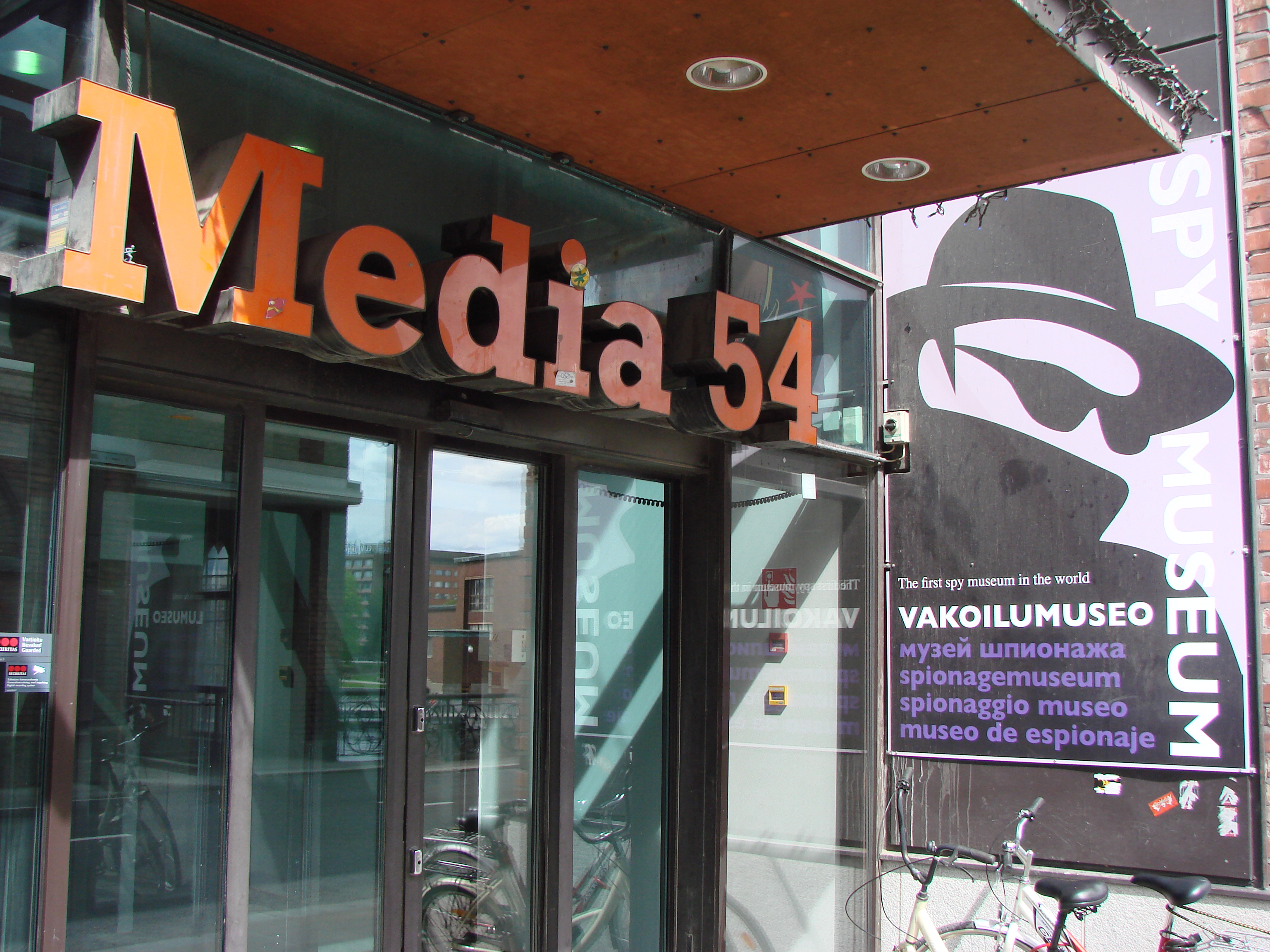 Spy Museum entrance, Tampere, Finland.